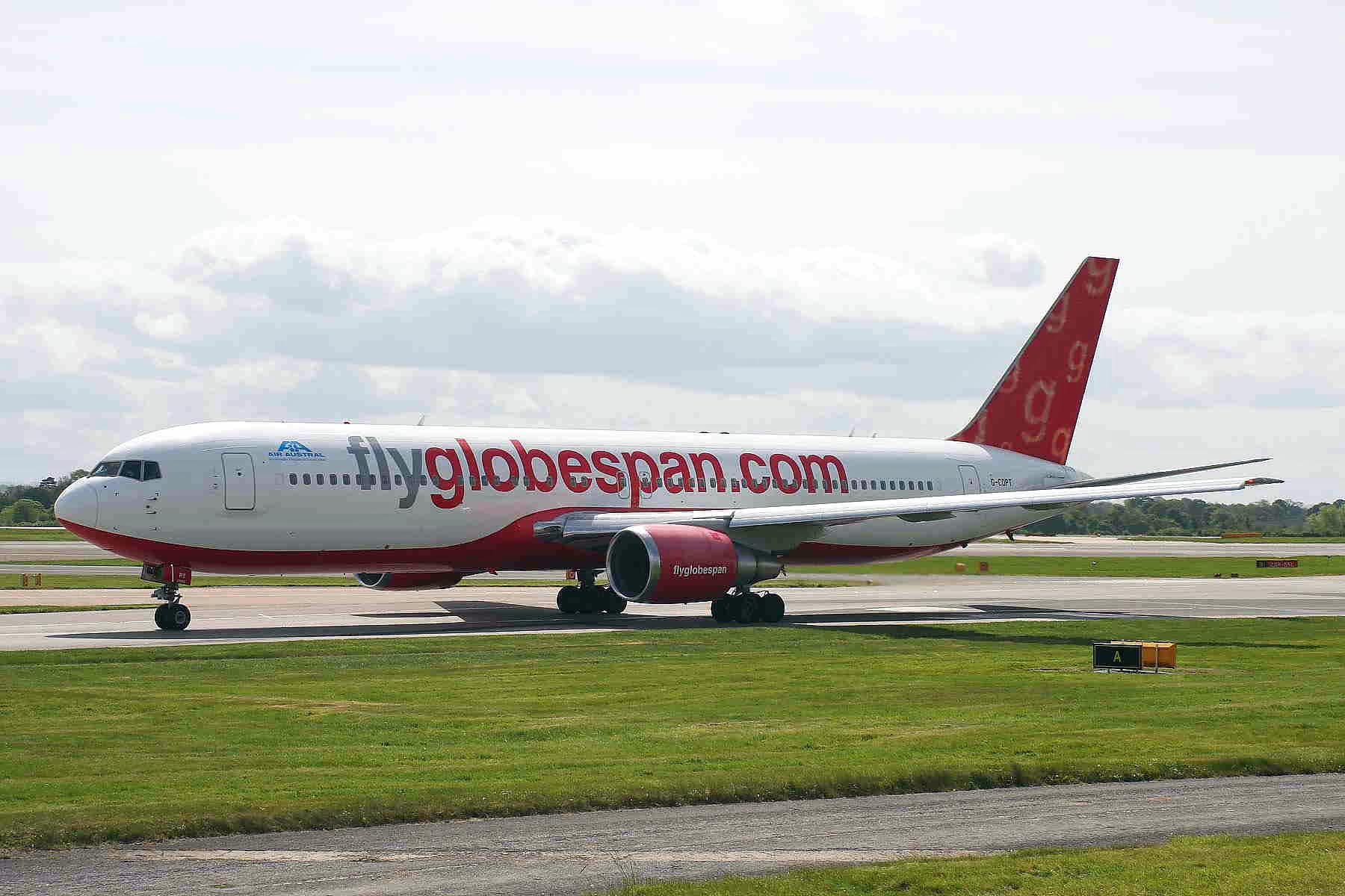 Returning from short-term lease to Air Austral, the additional Air Austral titles were removed at Manchester (MAN) before it returned to its base at Glasgow (GLA)